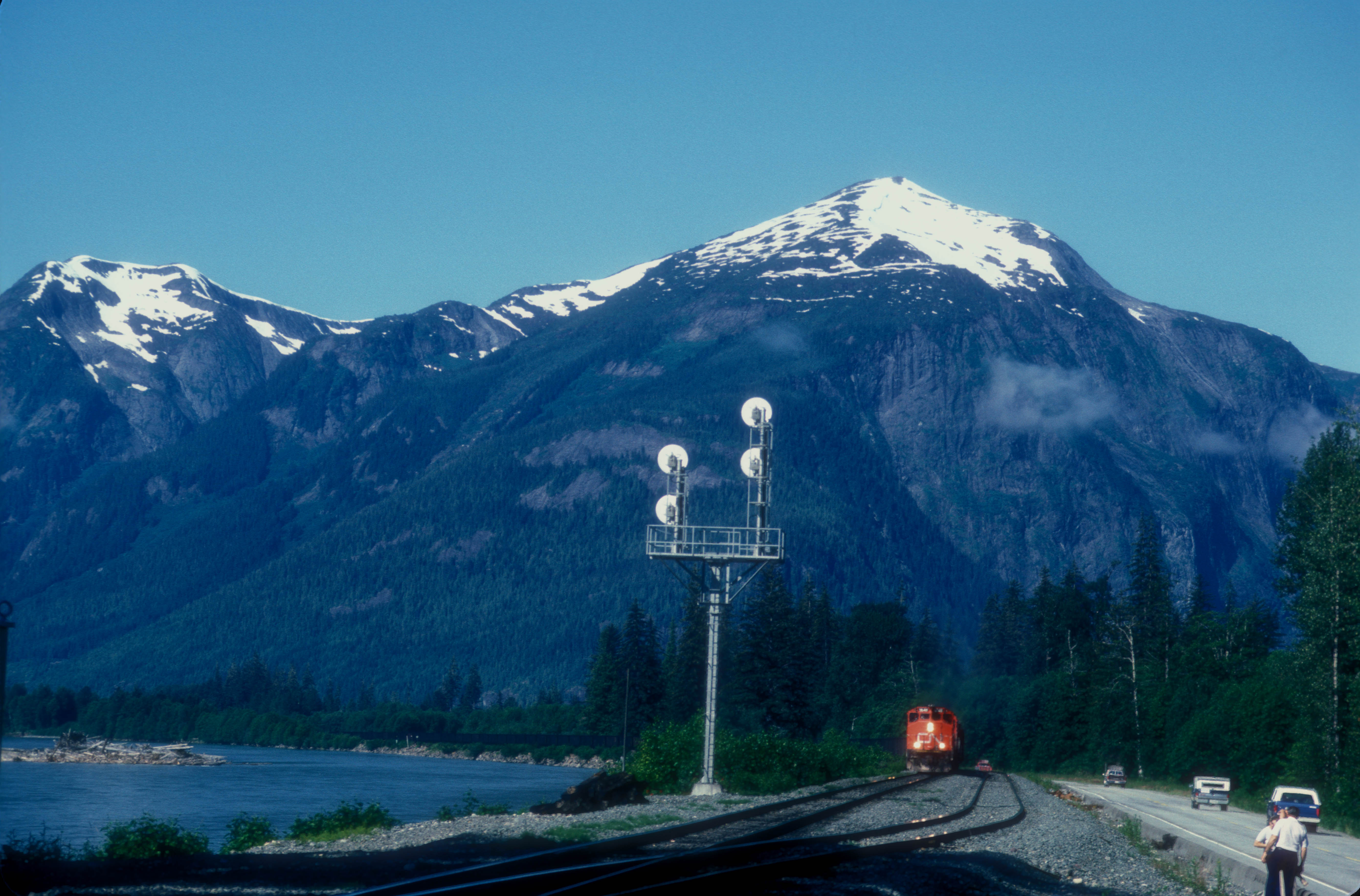 YELLOWHEAD HIGHWAY #16 ALONG THE SKEENA RIVER BETWEEN PRINCE RUPERT AND KITWANGA